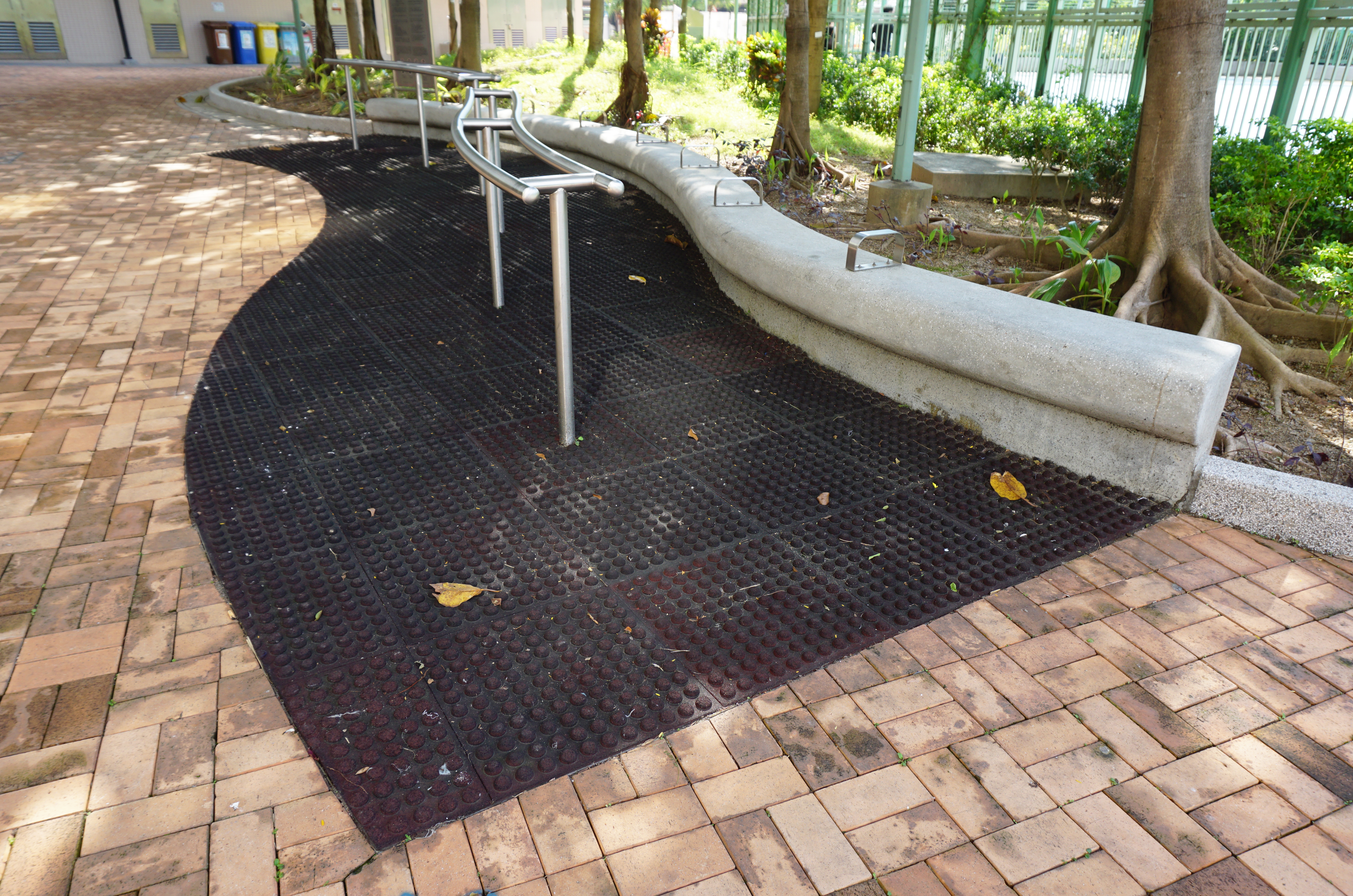 Yan On Estate in Heng On, Hong Kong.